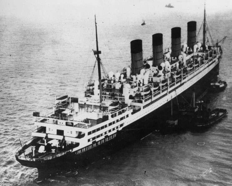 The RMS Aquitania grounded on Thorne Knoll near Southampton.